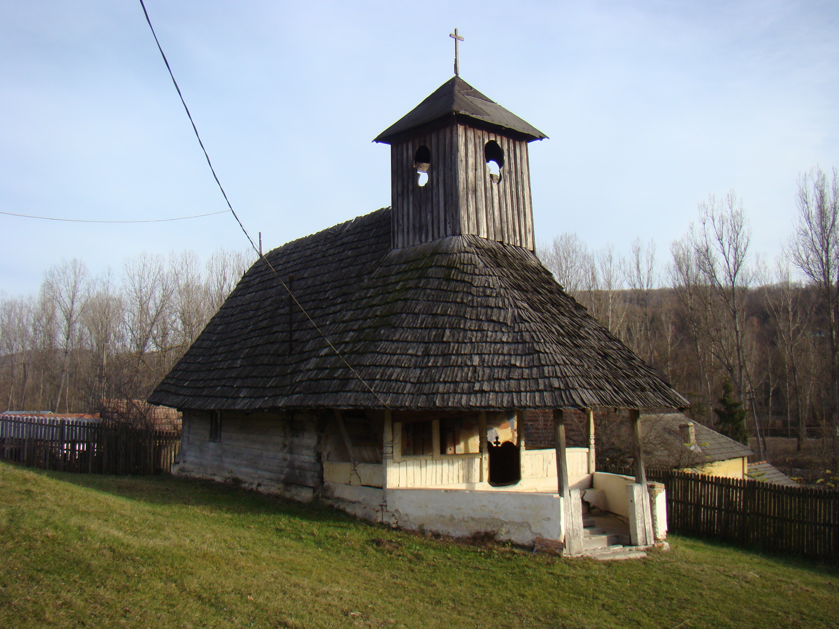 General view of the wooden church from Stanesti village, Stoilesti commune, Romania